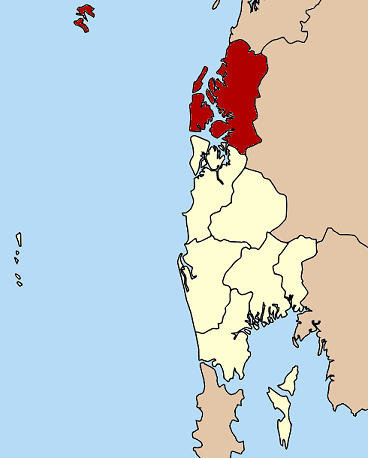 Map of Phang Nga province, Thailand, highlighting the district Khura Buri (geocode 8206).